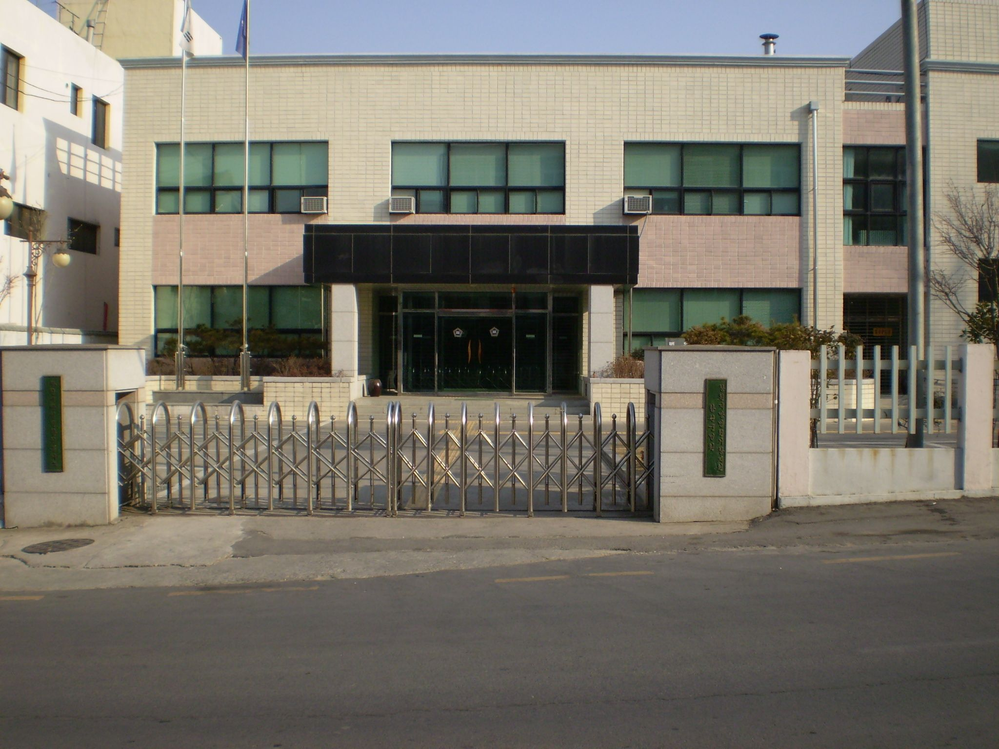 Local court building in Hapcheon, Gyeongsangnam-do, South Korea.